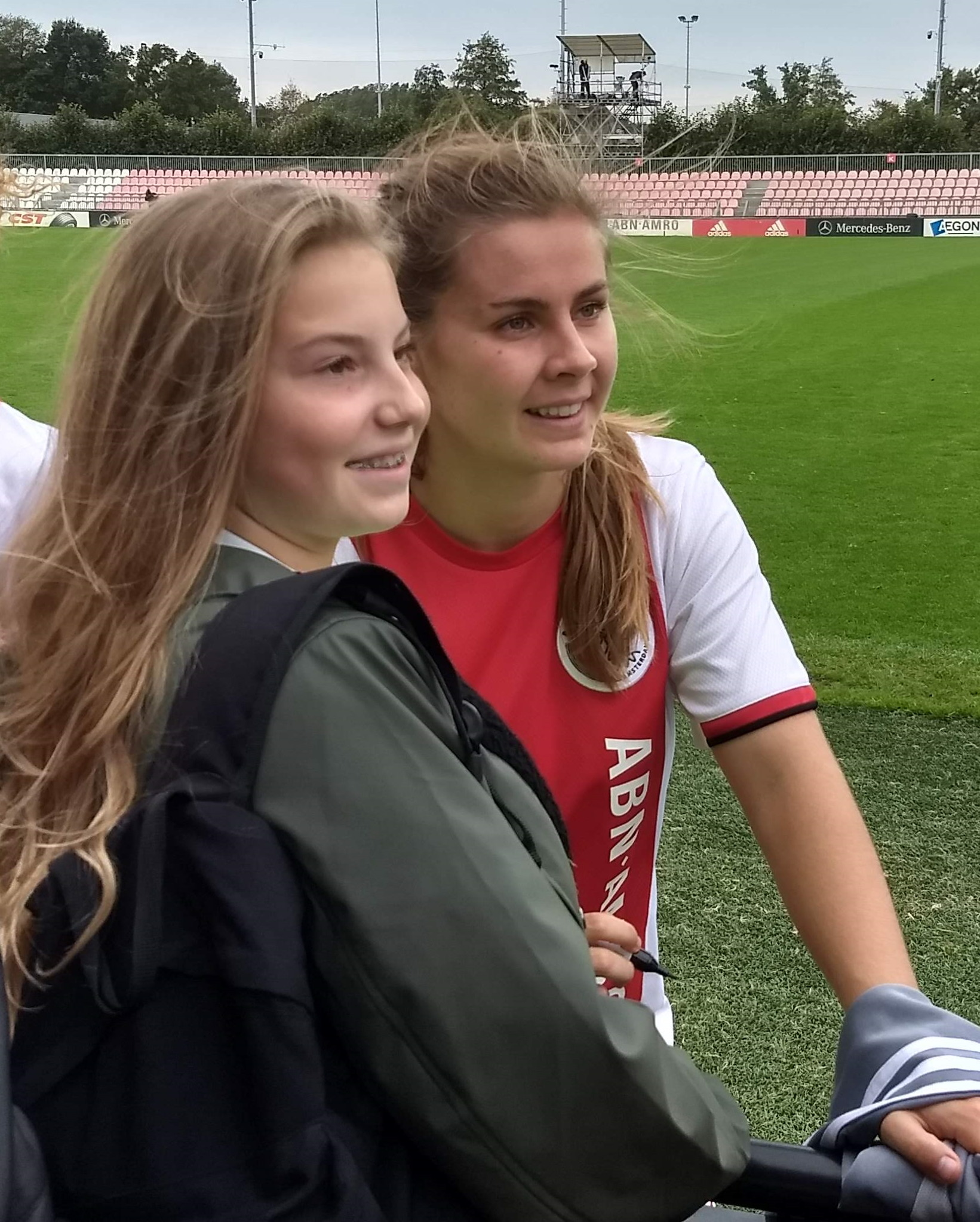 Victoria Pelova, making a selfie with a fan @ De Toekomst